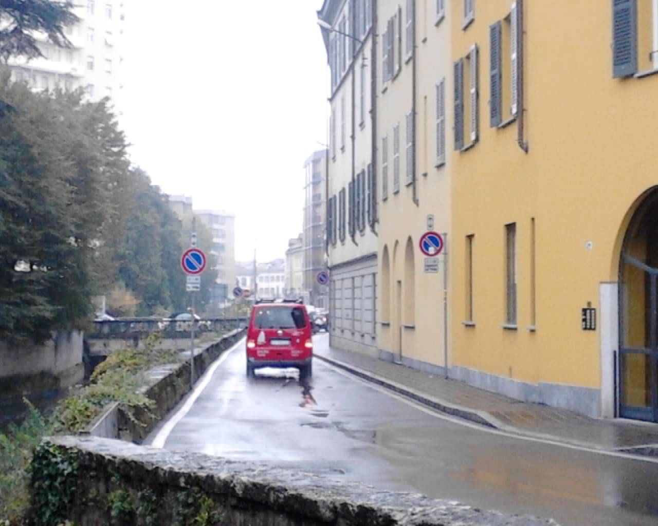 VIA ALIPRANDI - MONZA - ITALY